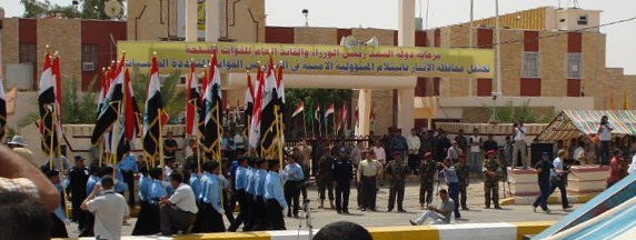 Transfer to provincial Iraqi control in Anbar Province.